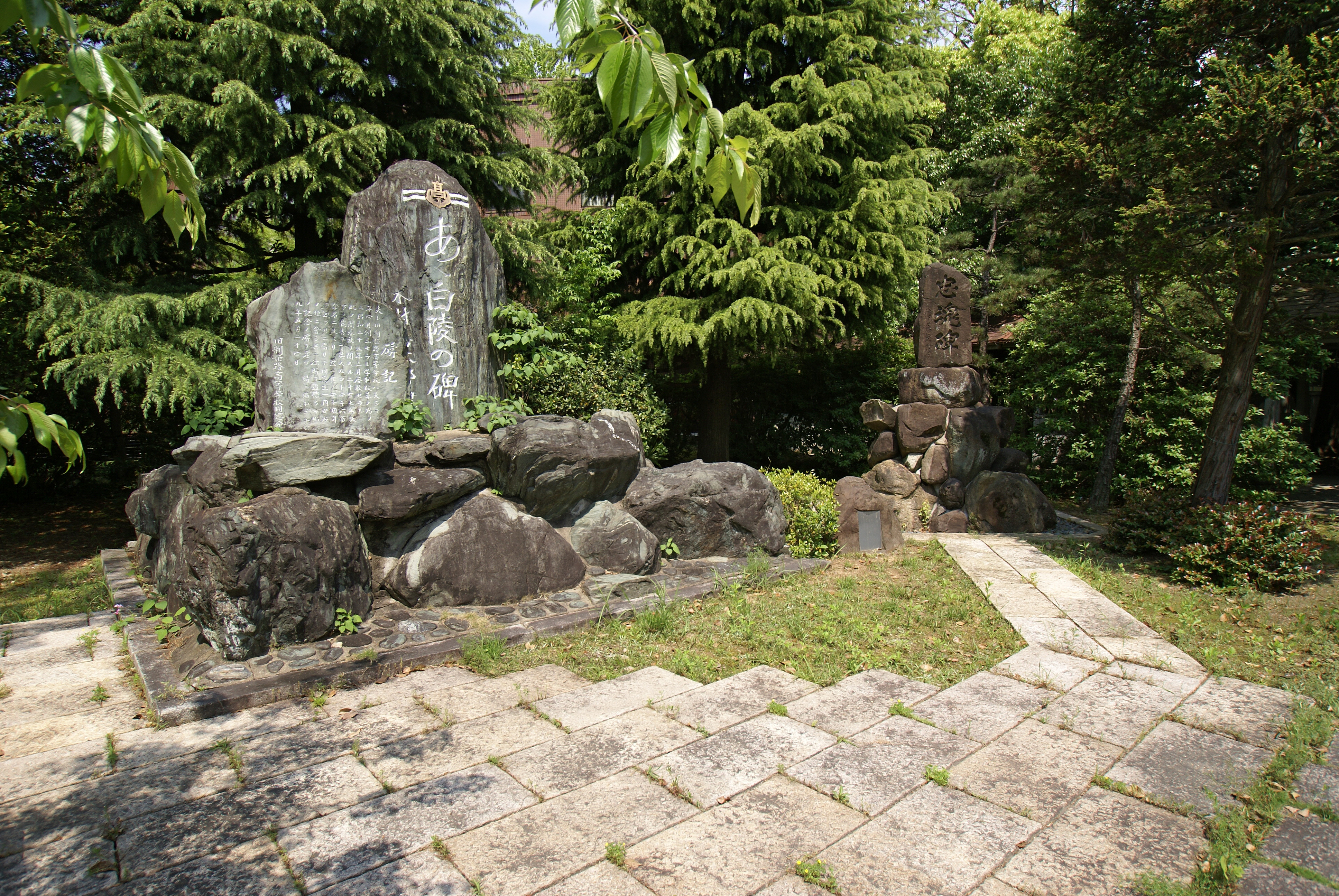 University_of_Hyogo in Himeji, Hyogo prefecture, Japan